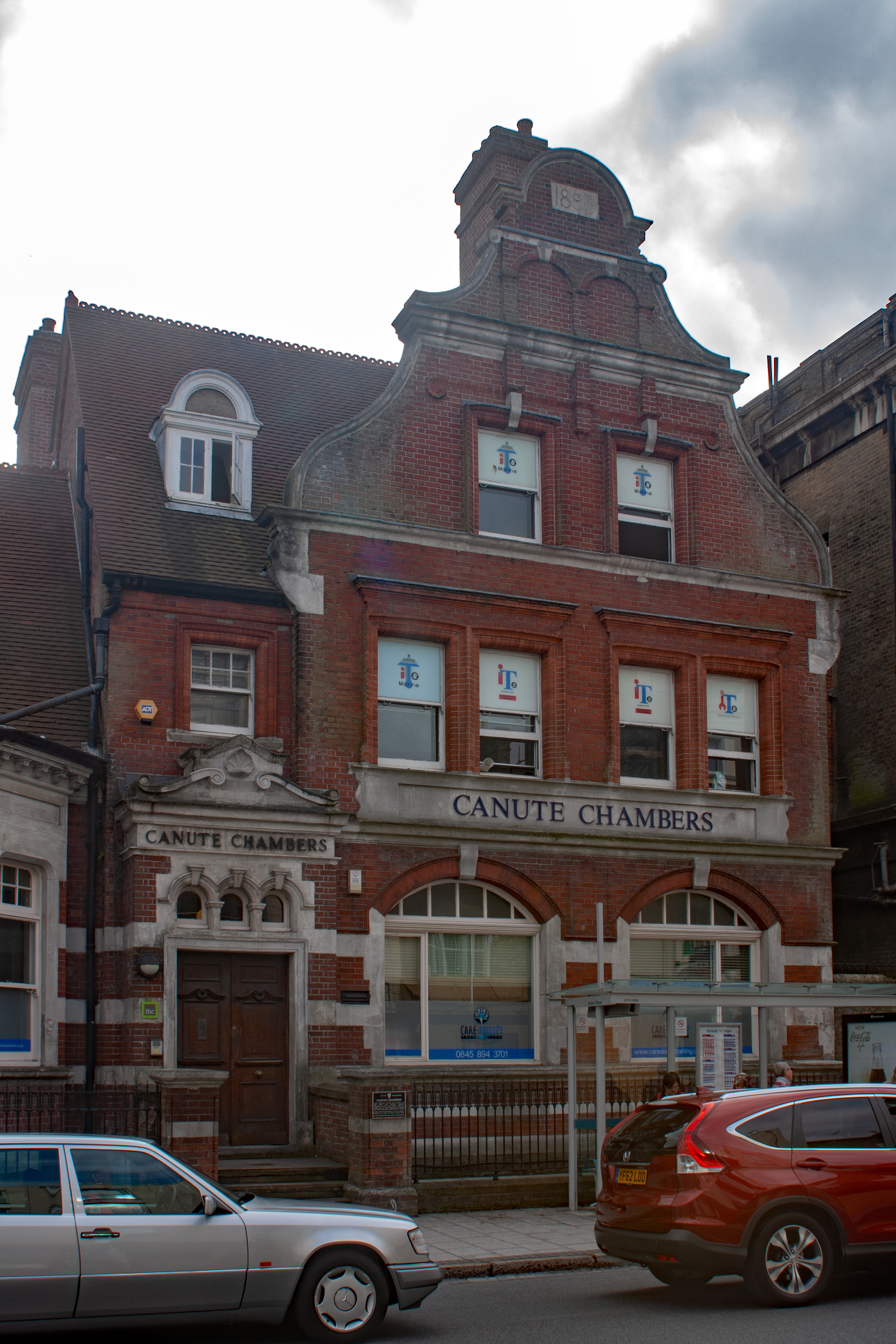 Former White Star Line Southampton offices